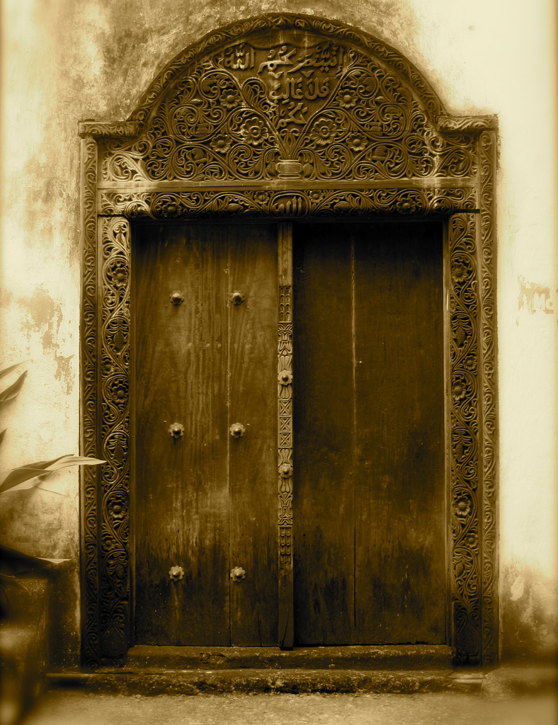 You are here to have a glimpse then confronting your own demon you purge mine - Enter But Leave Yourself Out, by Merc Tenorio (Intricate carved doorway إن ينصركم الله فلا غالب لكم, Old Town, Mombasa, Kenya) Seen in Explore, 2 October 2007